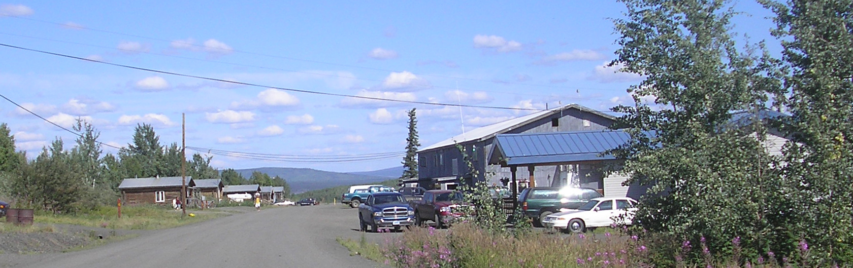 Minto's clinic and motel are seen in July 2009.